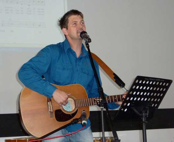 Thomas Raber at "Liederfundkiste"